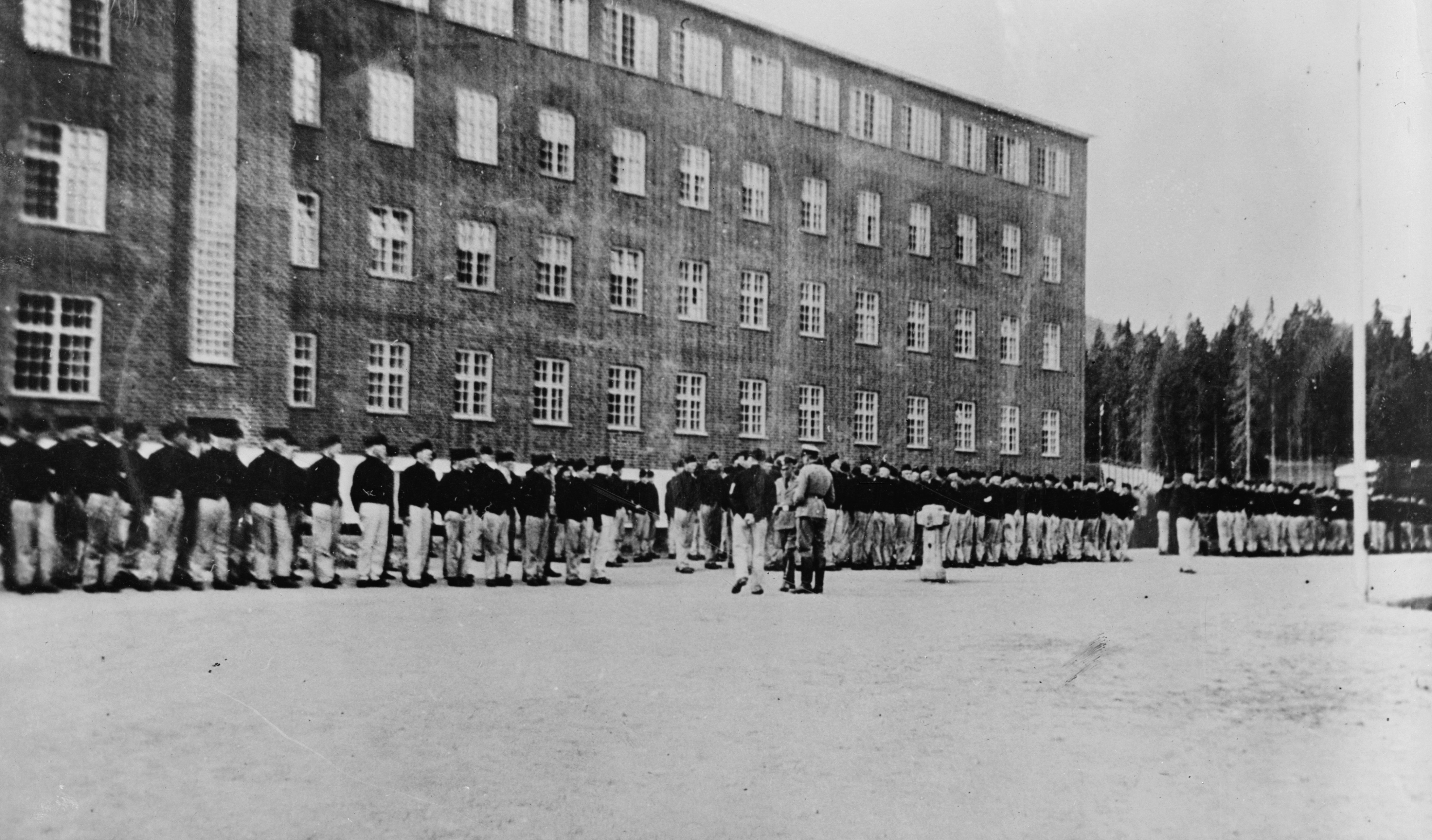 Grini was a Nazi concentration camp located outside Oslo, Norway.